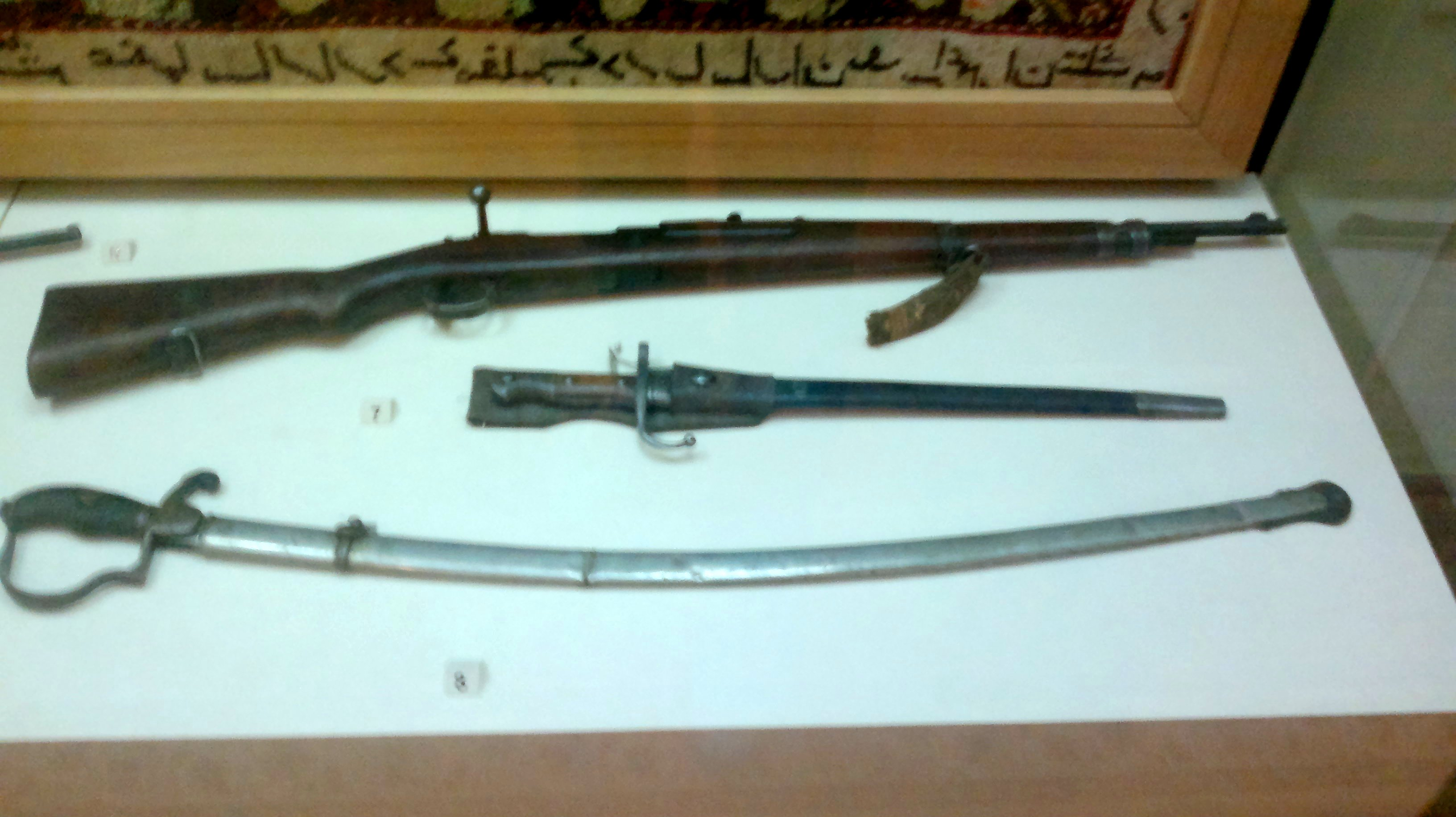 Sword of Ottoman horseman and Ottoman riffle of Mauser system with its bayonet discovered near "Gurd gapisi" ("Wolf's gates"), the territory where the fightings for Baku took place. Museum of History of Azerbaijan, Baku.